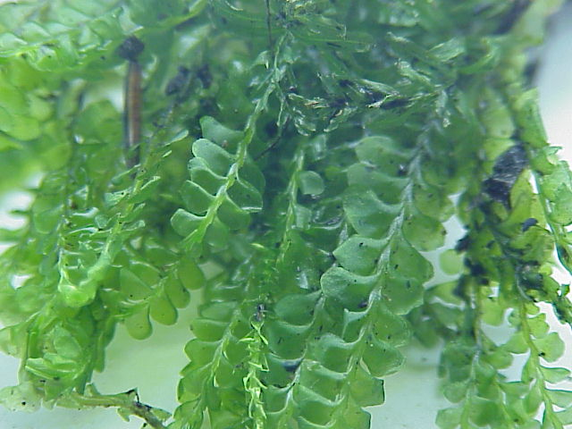 Species: Plagiochila aspleniodes Family: ' Image No. 1